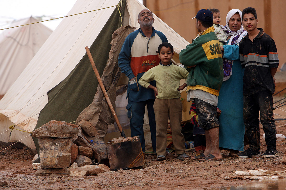 Original caption states "Near the Iraqi/Jordanian border, key leaders from Coalition Forces, the Iraqi Government and the United Nations met to figure out the fate of a growing number of Iraqis of Palestinian heritage who fled their homes in Baghdad in recent weeks, seeking asylum from the violence there. More than 150 men, women and children tried to cross into Jordan to escape violence and persecution in their home of Baghdad, but were thwarted by Jordanian border officials who refused their passage across, according to Shihab Ahmed Taha, a refugee at the camp with his wife and three children. With help from the Iraqi Red Crescent, a group similar to the American Red Cross, a camp was set up for the refugees, complete with tents, food, water and medical supplies. Here, an Iraqi family – refugees – takes a moment to pose for the camera while watching key leaders from Coalition Forces and the United Nations survey the refugees’ camp of tents April 17, 2006, near the Iraqi-Jordanian border.." Note that, since they did not cross an international border, they are internally displaced persons and not legally refugees.